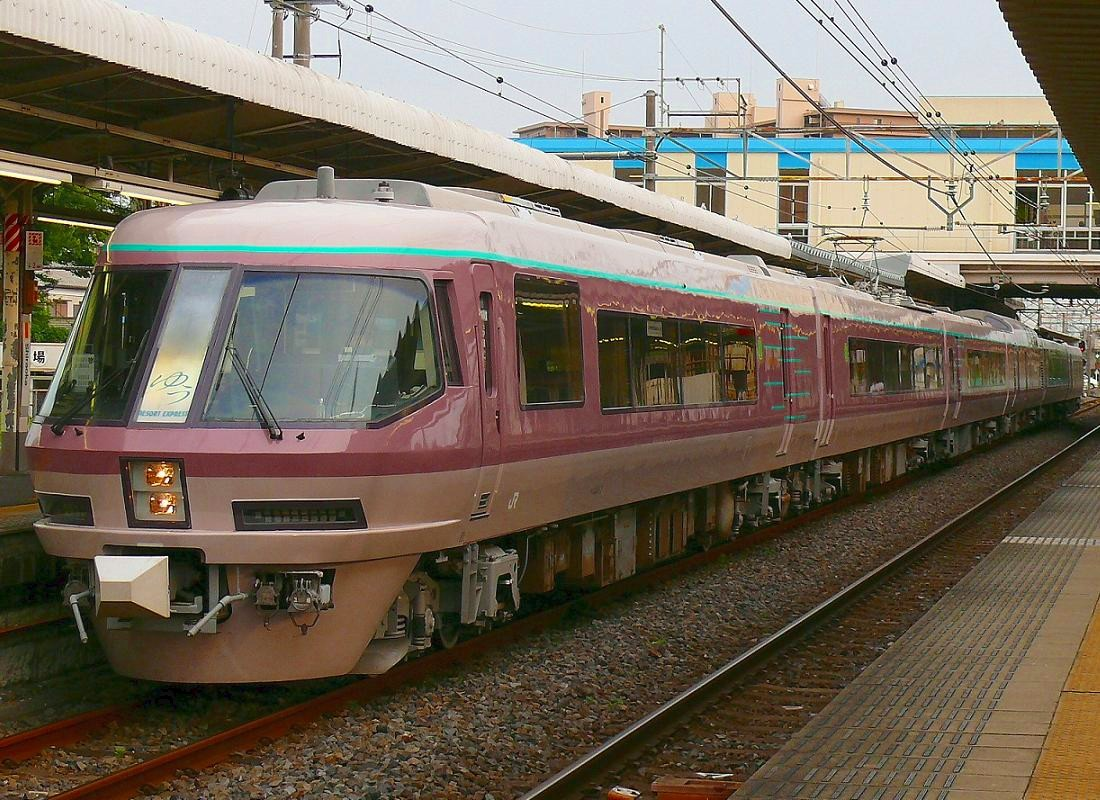 JR East 485 series "Resort Express Yuu" Joyful Train at Shiraoka Station